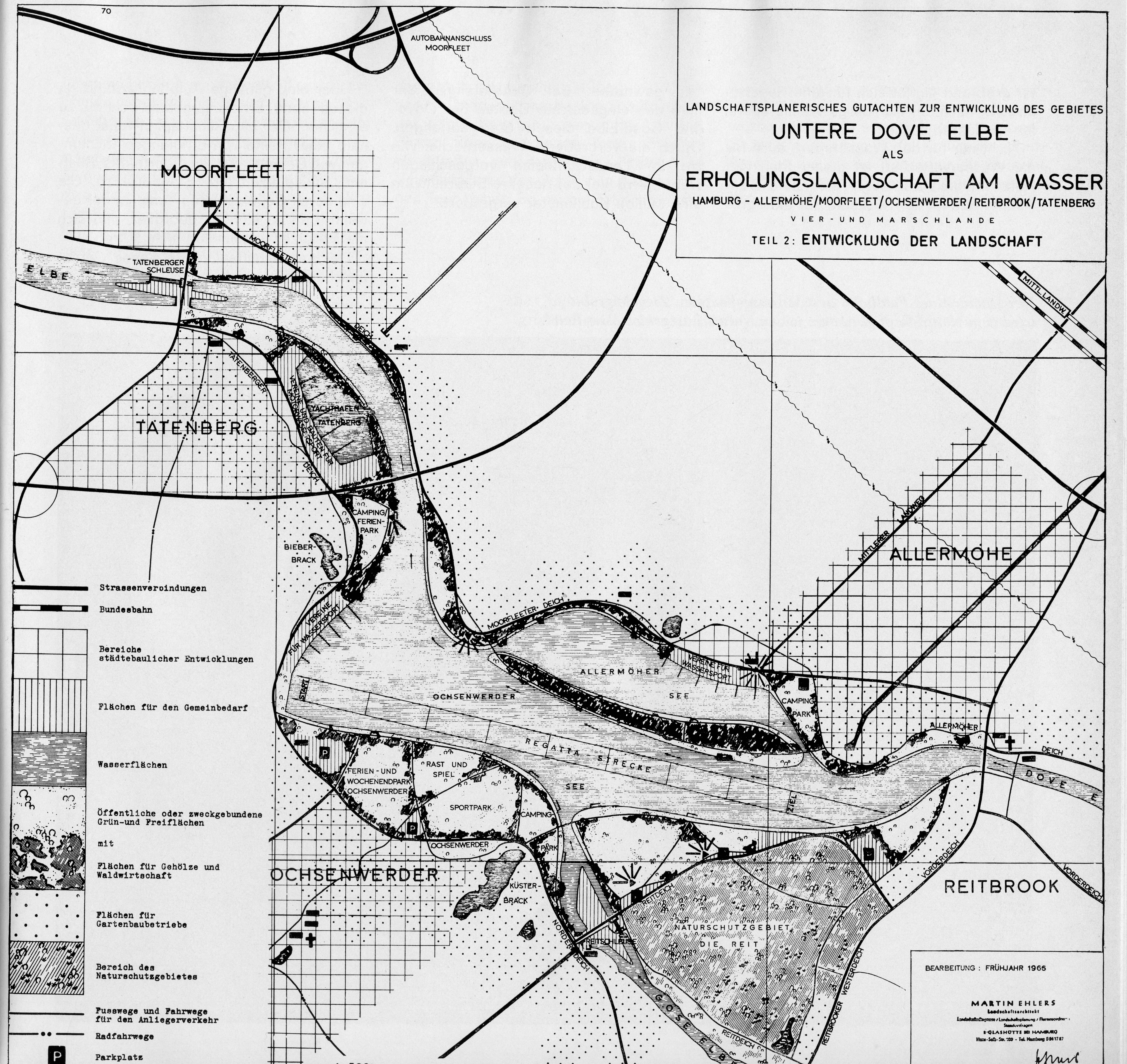 Landscape planning "Untere Dove Elbe". This report provides a basis of construction of the regatta area.